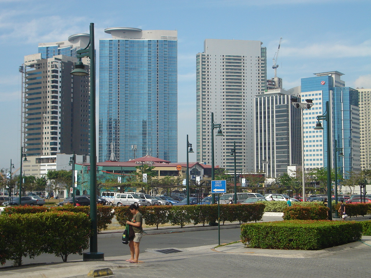 Fort Bonifacio in Taguig City